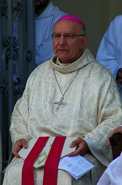 Nicolás Cotugno